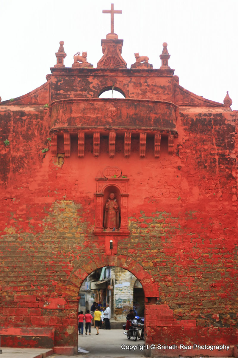 Zampa Gateway